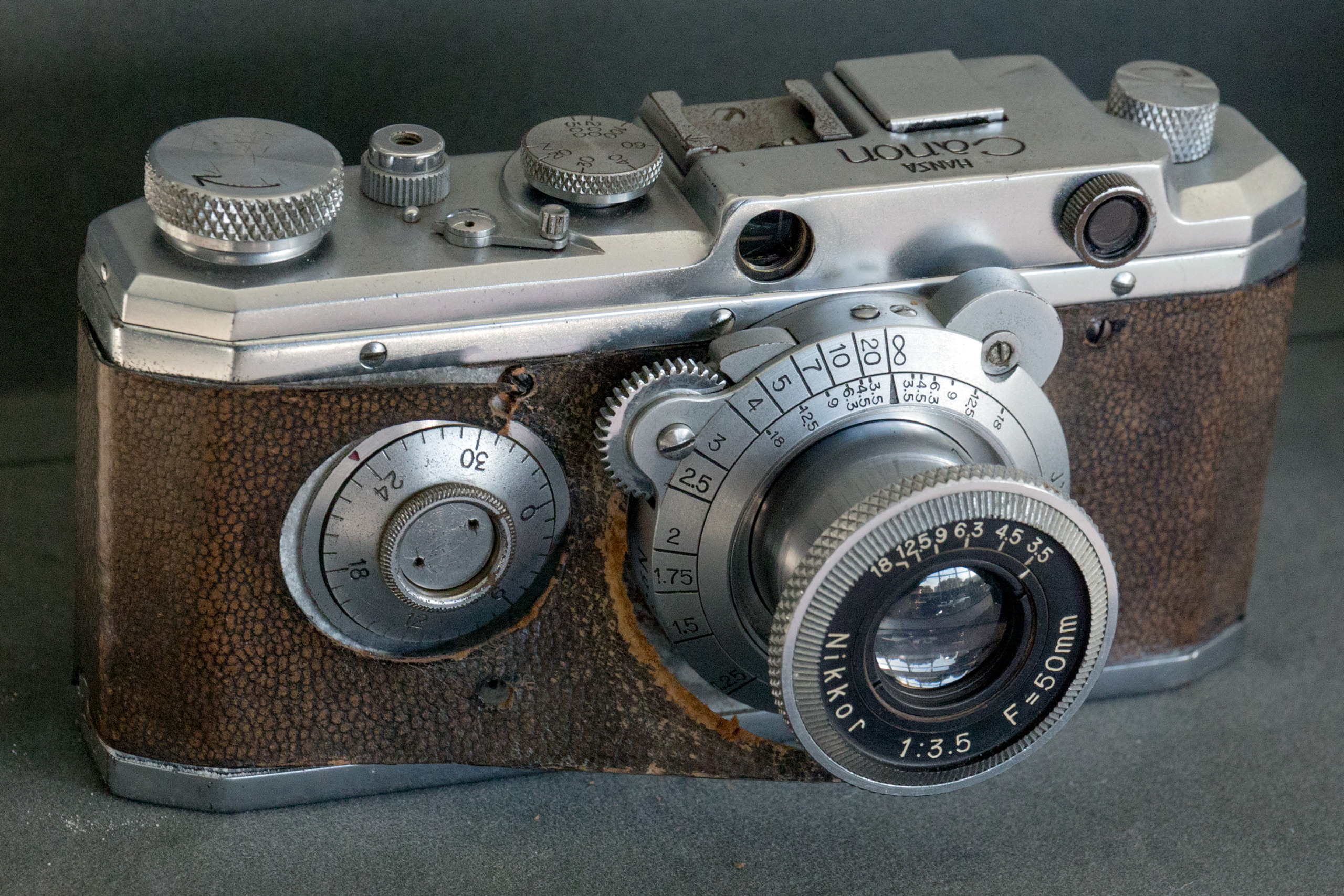 1936 Hansa Canon with Nikkor 50mm f/3.5